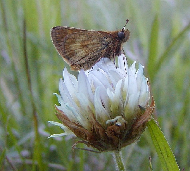 Polites mardon on clover at Gifford Pinchot National Forest, Washington, USA